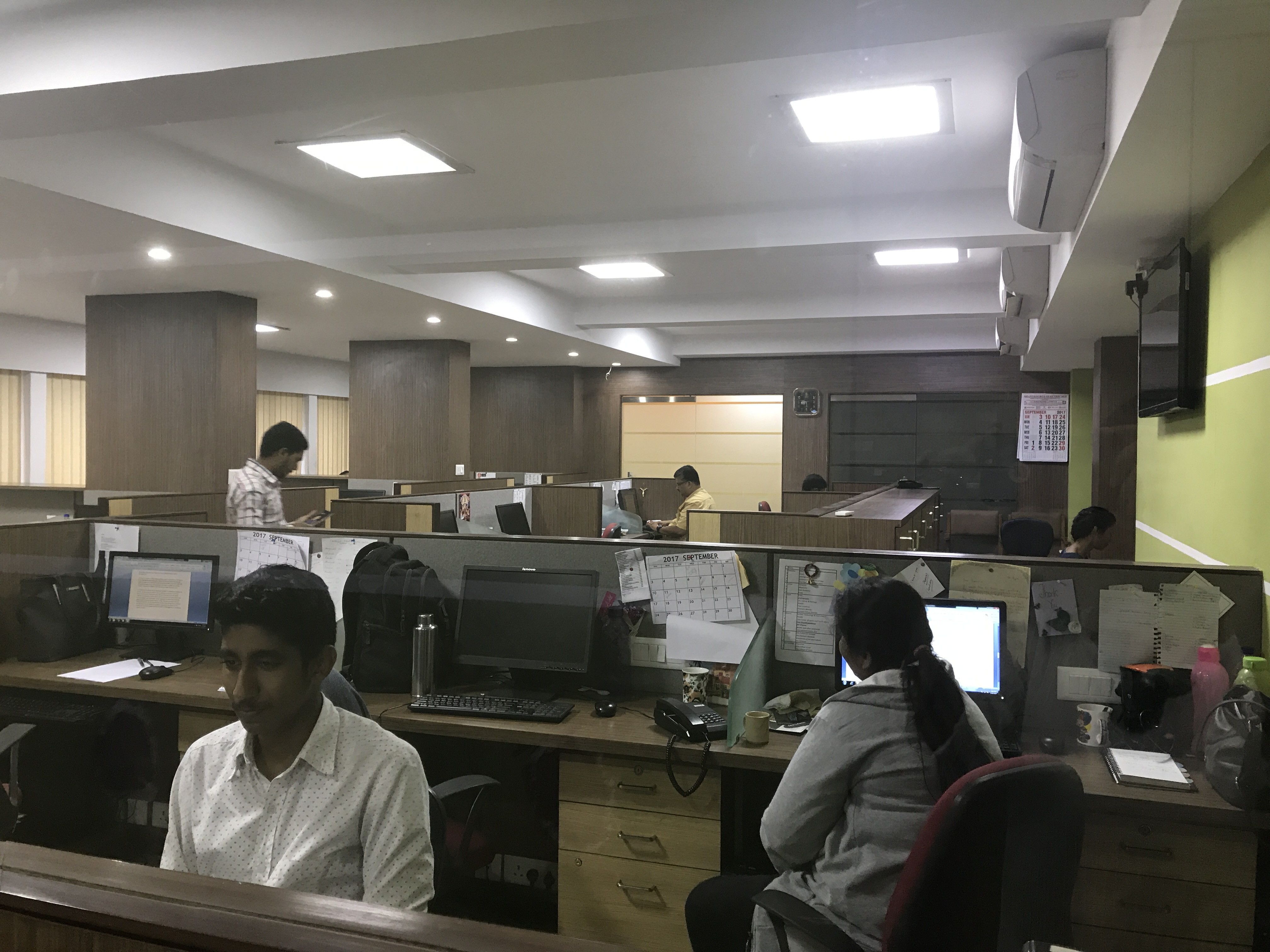 The backbone of the oldest local English daily in Panaji Goa